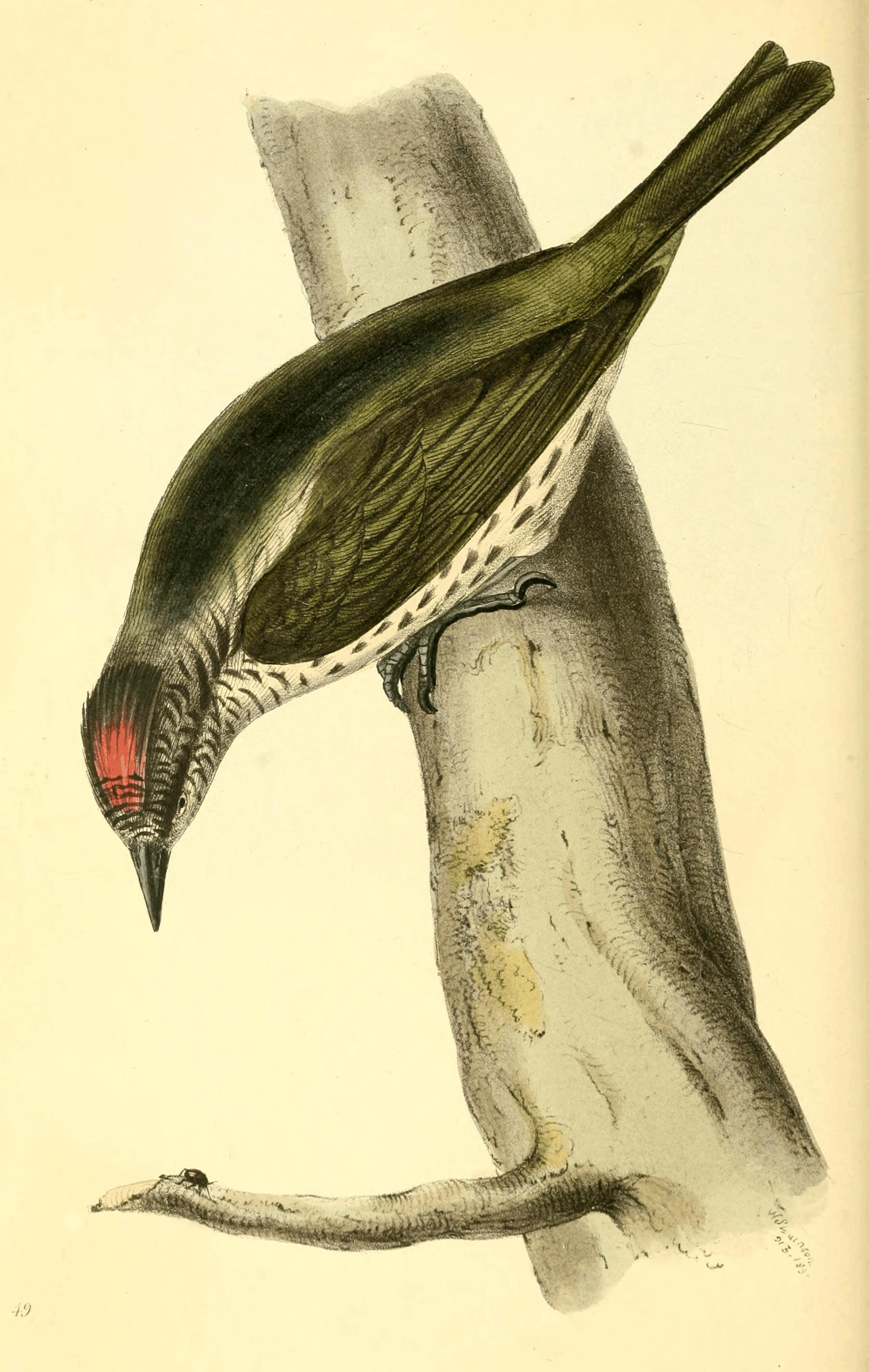 Plate 49. Oxyrhyncus cristatus, with a reference to spelling of genus as Oxyruncus Temminck. Crested Sharpbill.